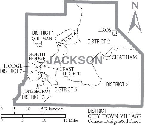 Map of Jackson Parish, Louisiana, United States with district and municipal boundaries